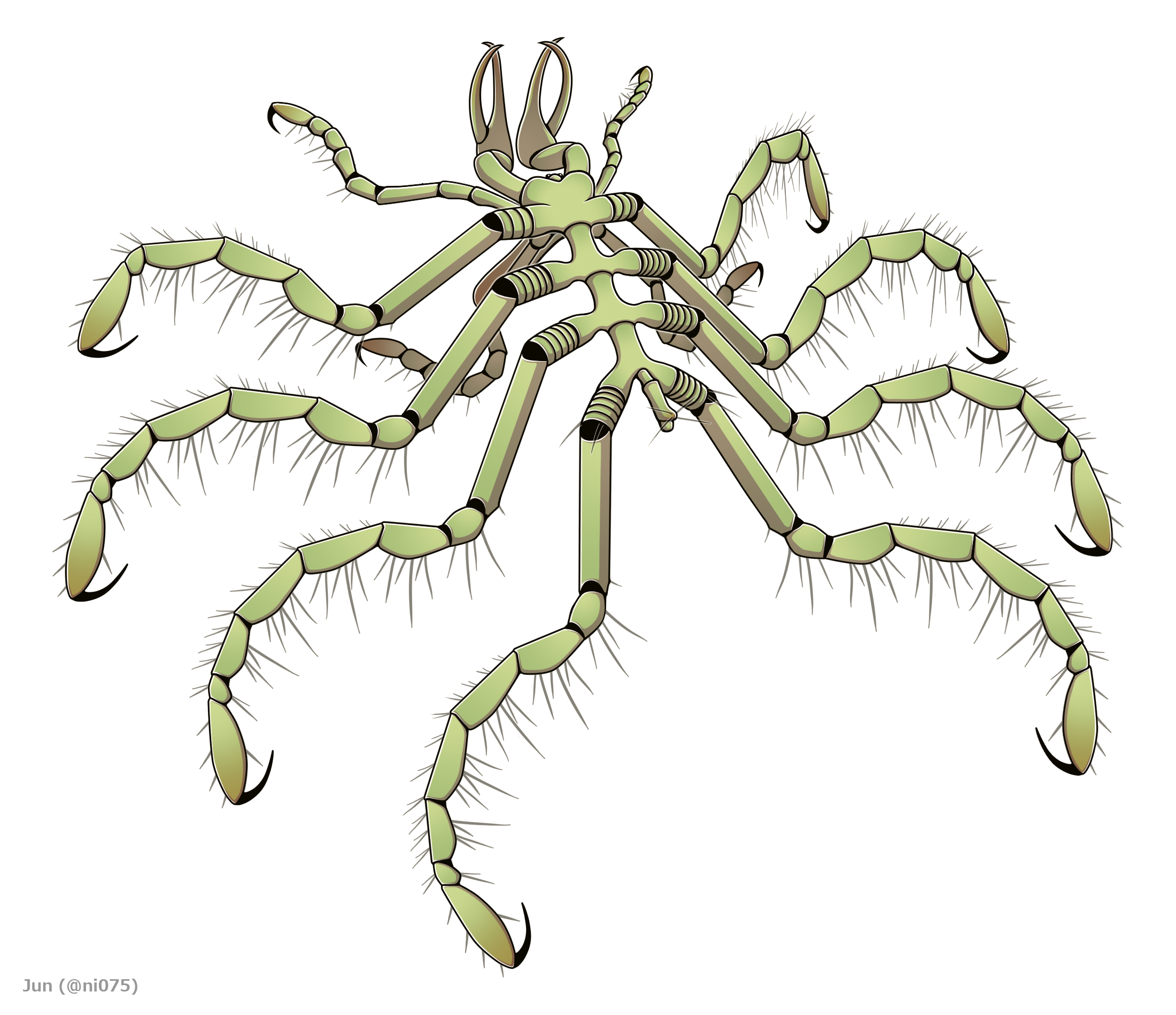 Reconstruction of Haliestes dasos, a silurian sea spider (pycnogonid). Eyes and 1st podomere of legs are conjectural.